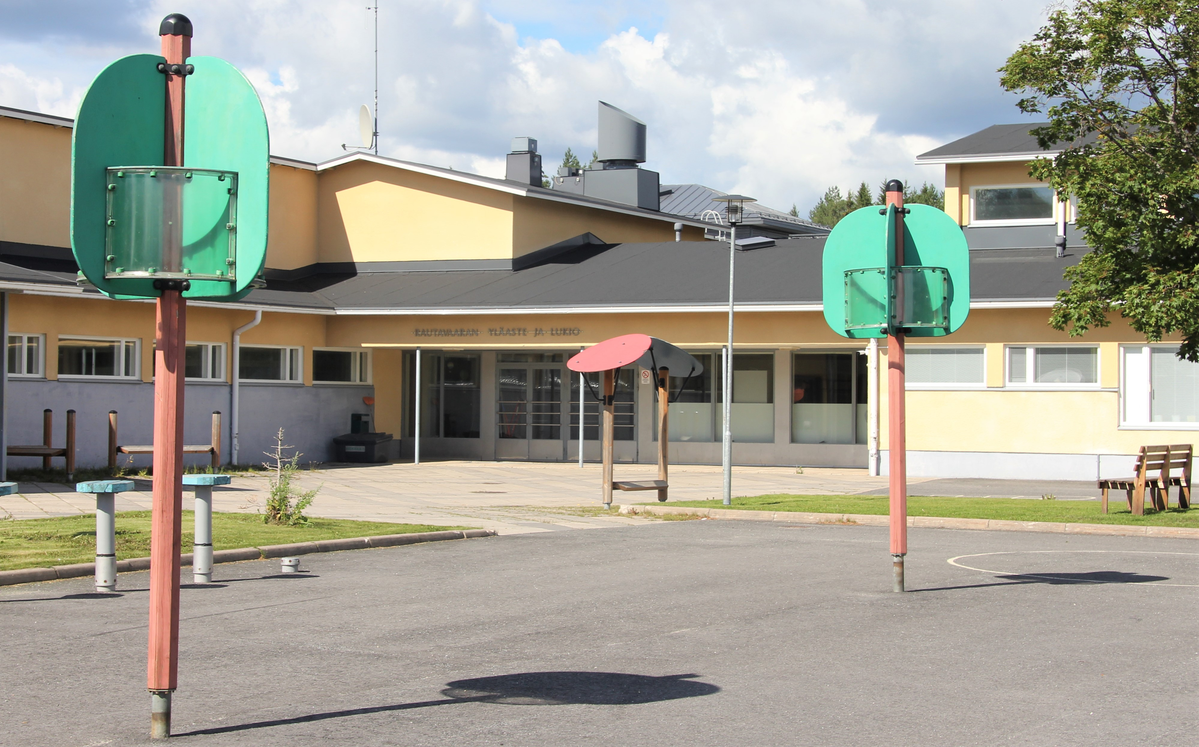 Rautavaara School Center - secondary school and gymnasium (high school) building, in Rautavaara, Finland.